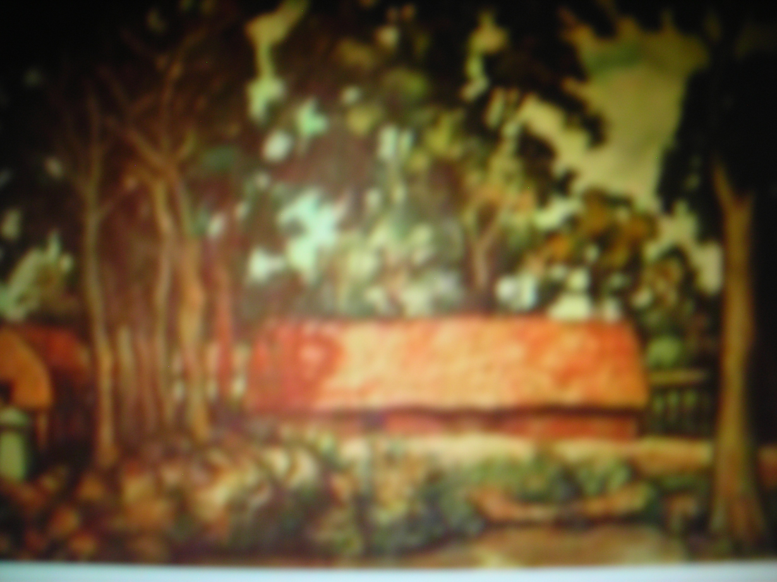 Thủ Đức landscape oil copy of USIS Calendar 1959